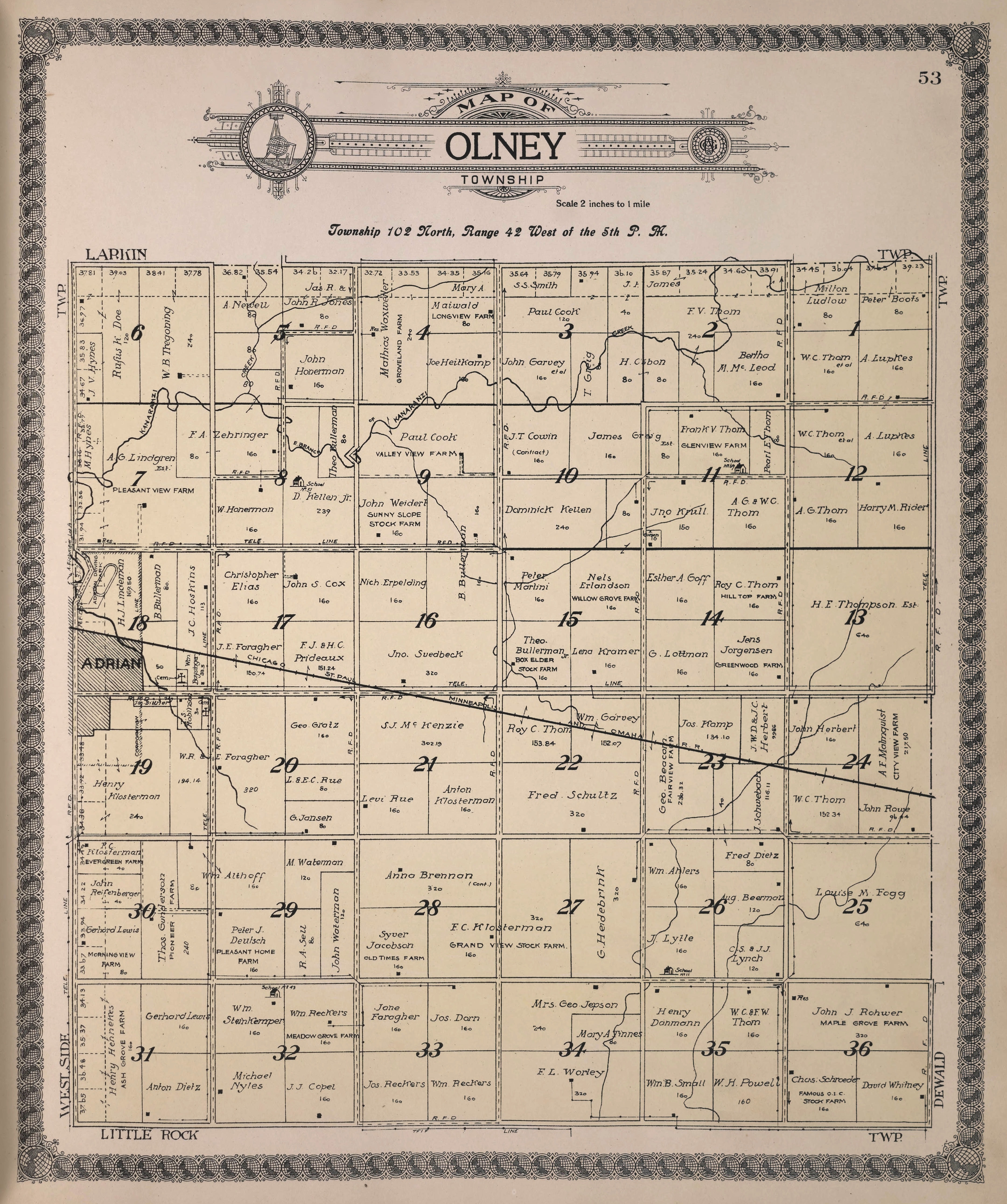 Olney Twonship, MN